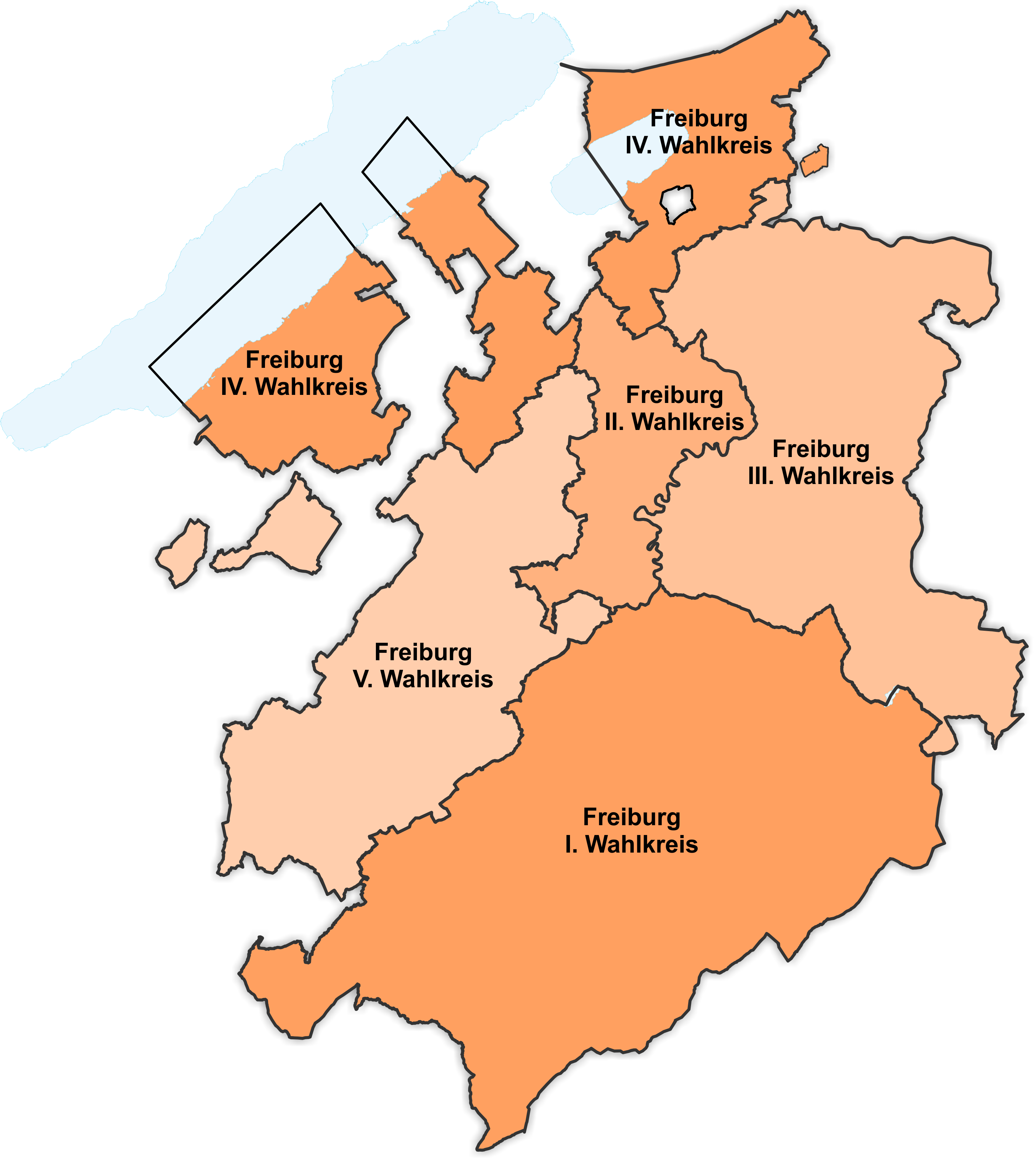 National council constituencies in the canton of Freiburg from 1848